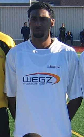 Darryl Gomez with Vaughan Shooters in 2005.